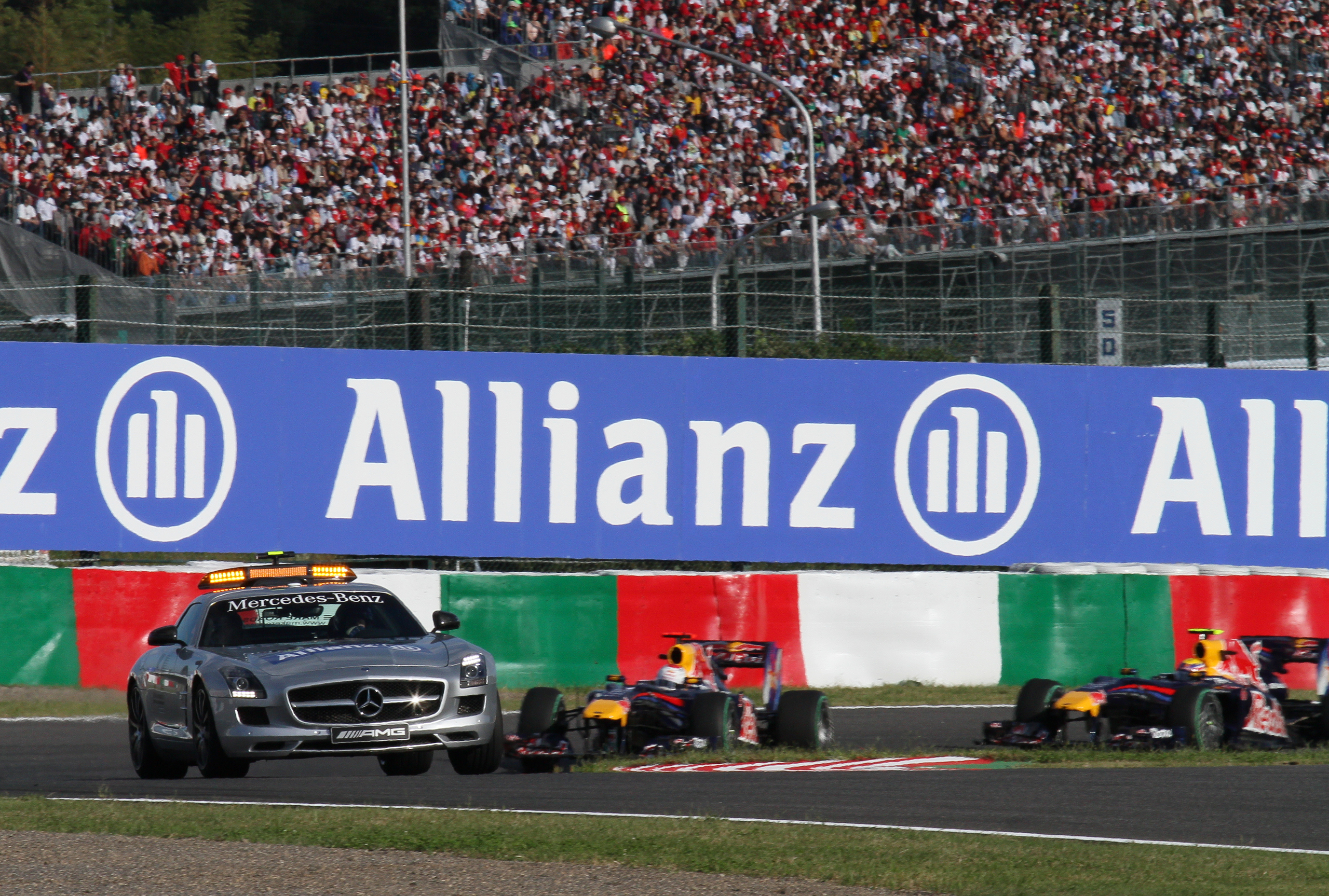 Formula One 2010 Rd.16 Japanese GP: Safety Car with Red Bull duo (Sebastian Vettel and Mark Webber).